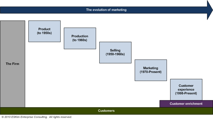 A schematic illustrating the evolving relationship between the firm and its customers via the marketing orientation, which includes the introduction of a new marketing concept, customer enrichment marketing.